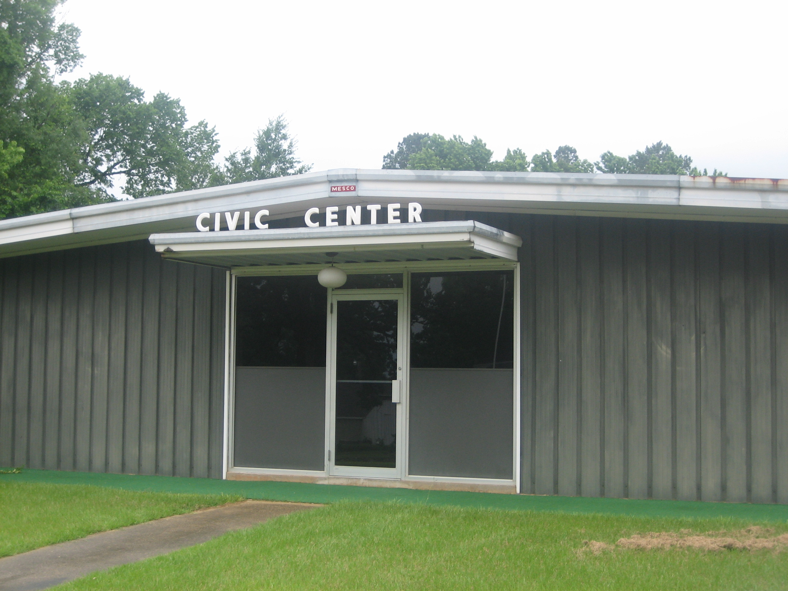 I took photo on May 22, 2009.Billy Hathorn (talk) 20:13, 29 May 2009 (UTC)